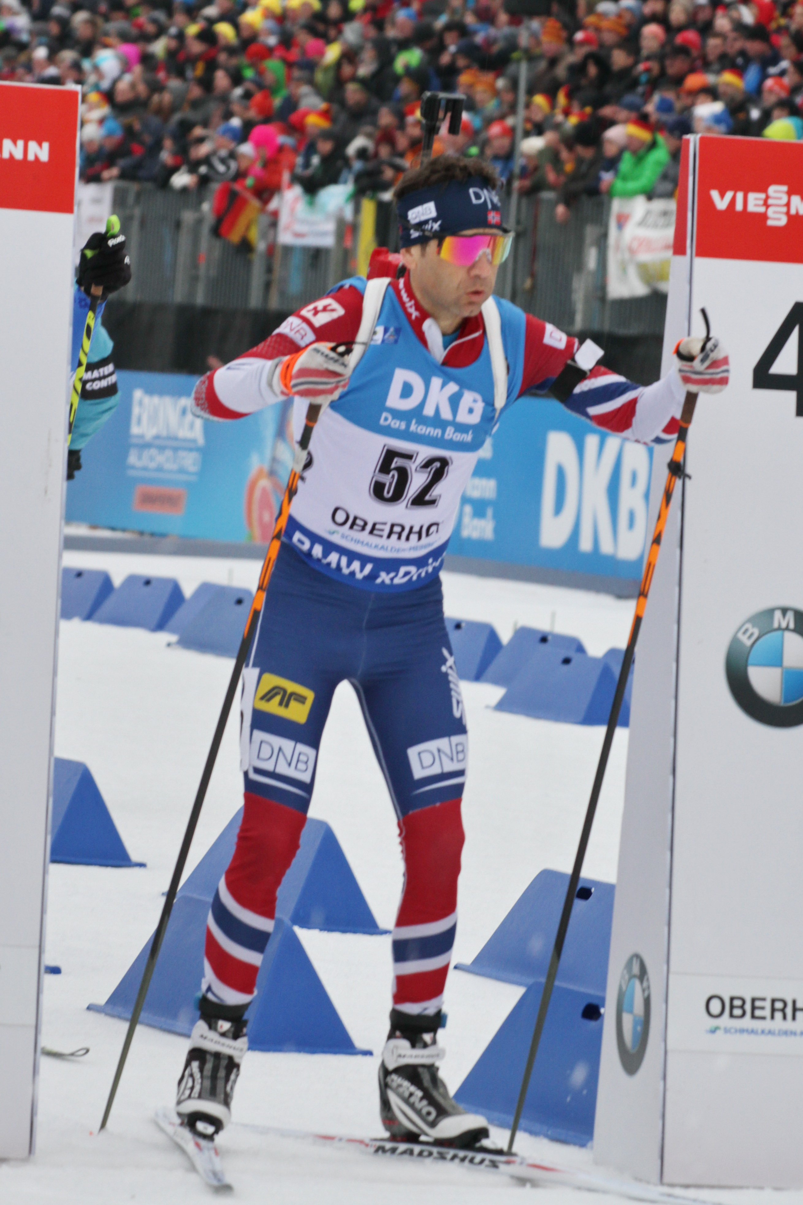 2018 Oberhof Biathlon World Cup - Pursuit Men